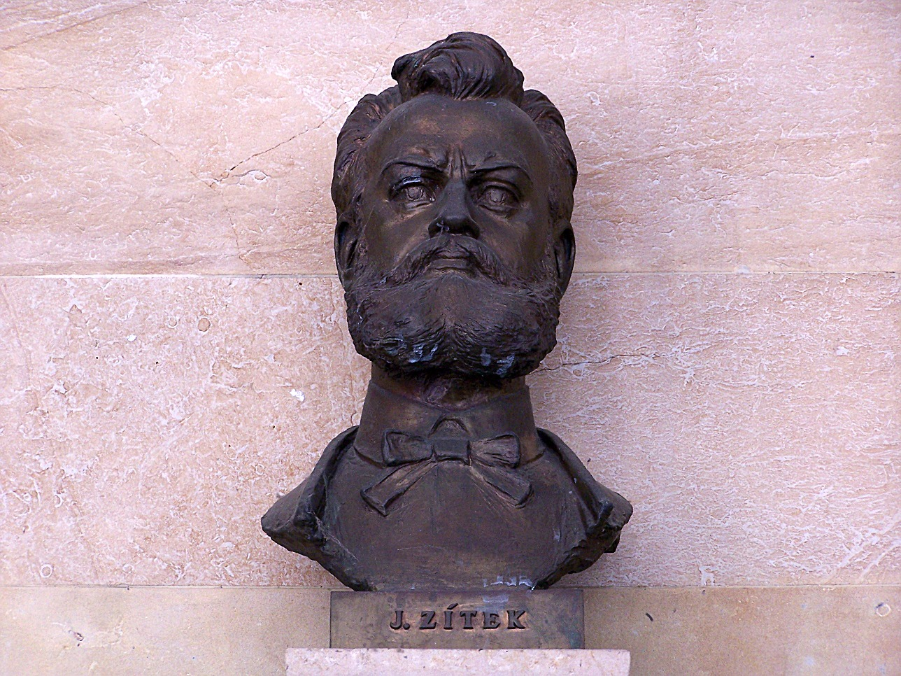 Bust of the czech architect Josef Zítek in Karlovy Vary.